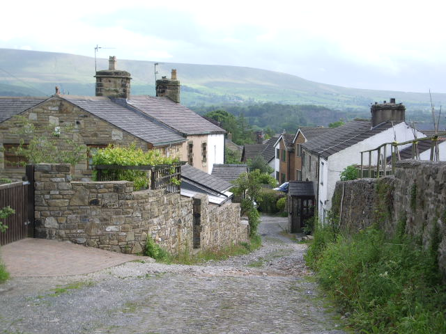 Back Lane, Grindleton